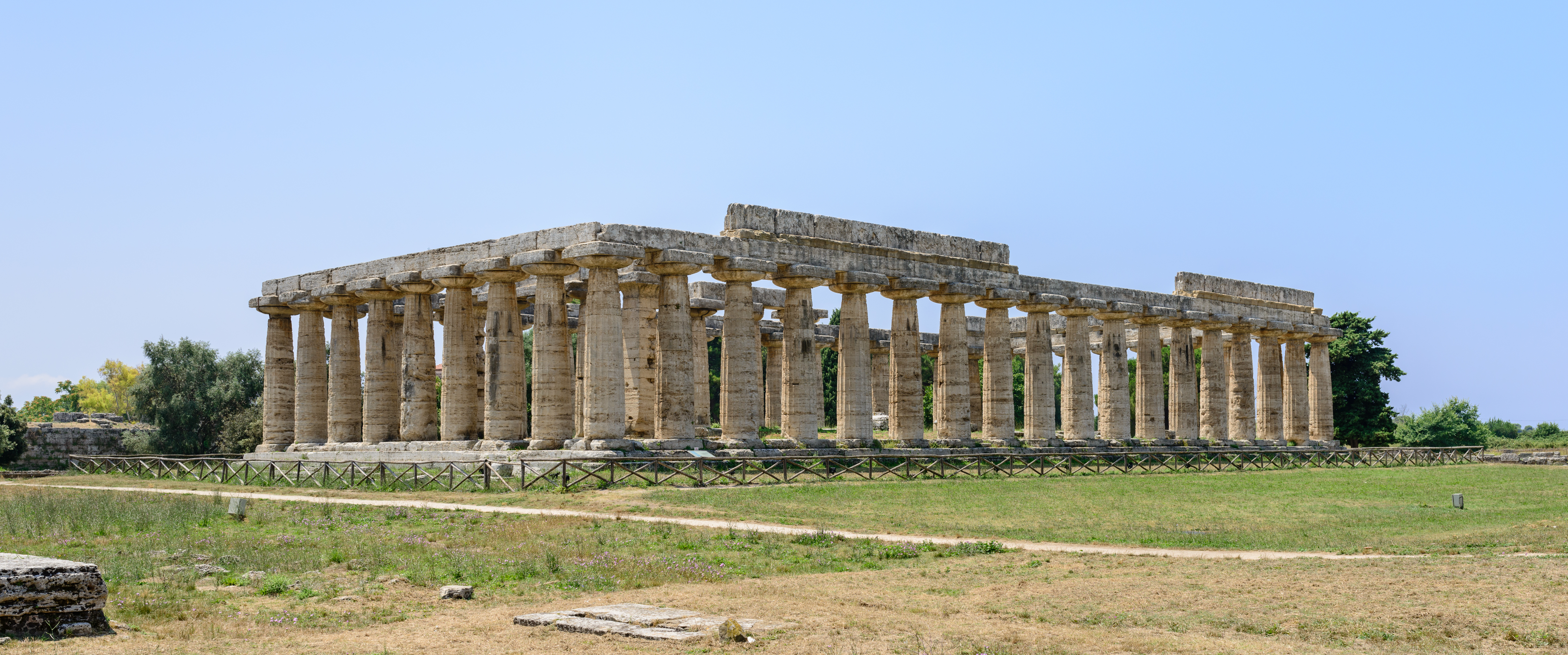 Temple of Hera (Hera temple I), Paestum (Poseidonia), Campania, Italy.